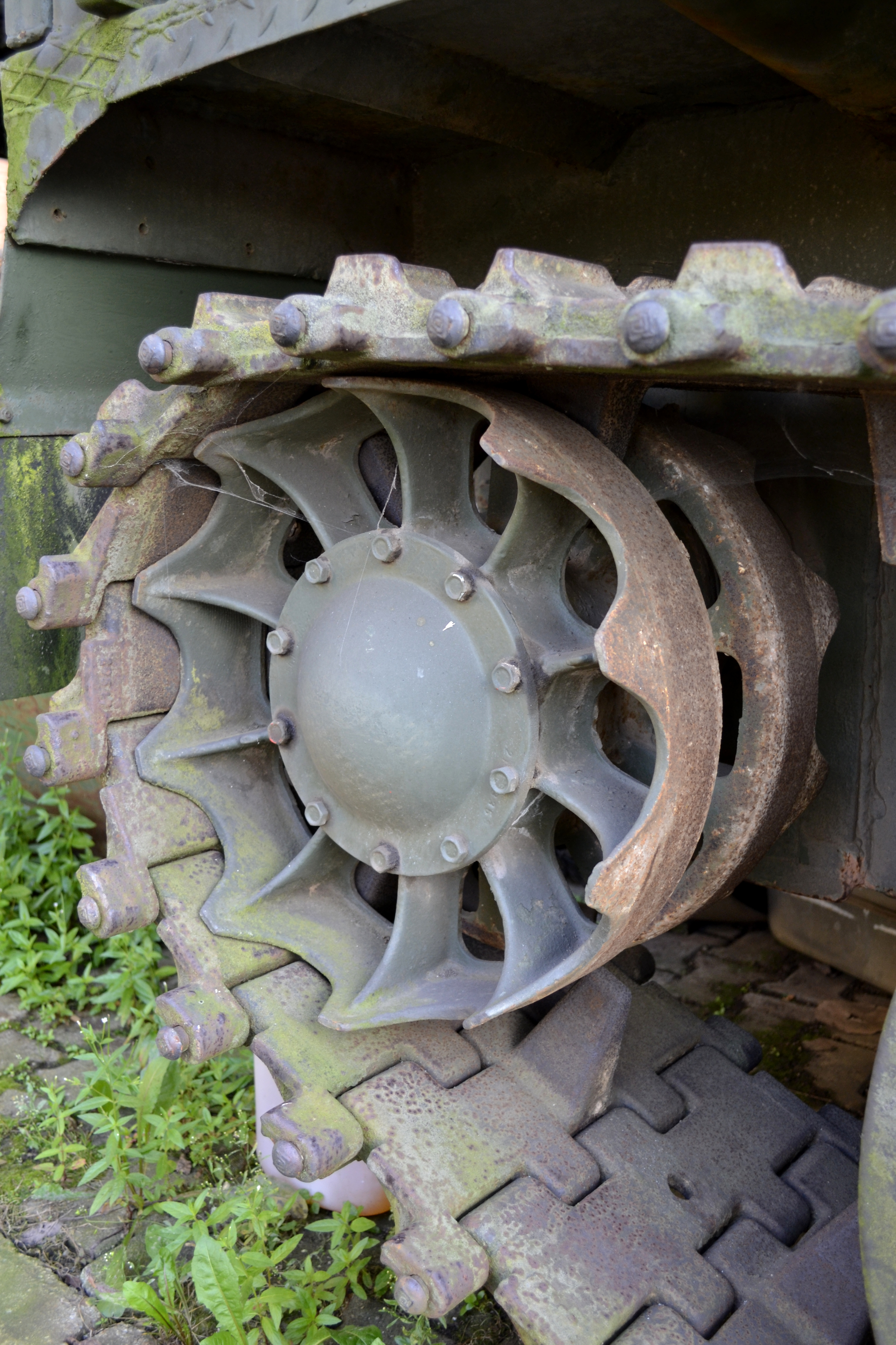 A road wheel of a AT-T artillery tracotr of the former East-German-Army.